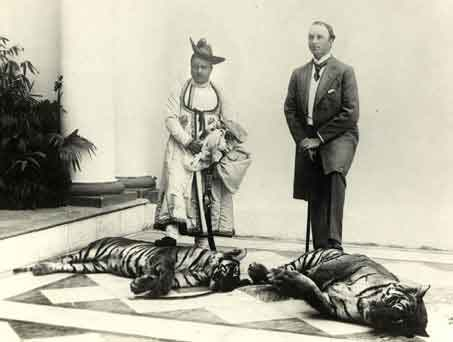 Lord Curzon with Maharaja of Gwalior after a hunting sport